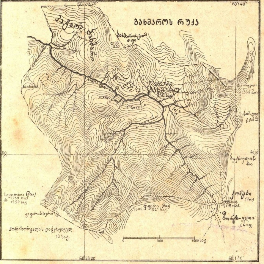 Bakhmaro Map 1926